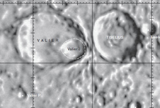 Except from the USGS Digital Atlas of the Moon.